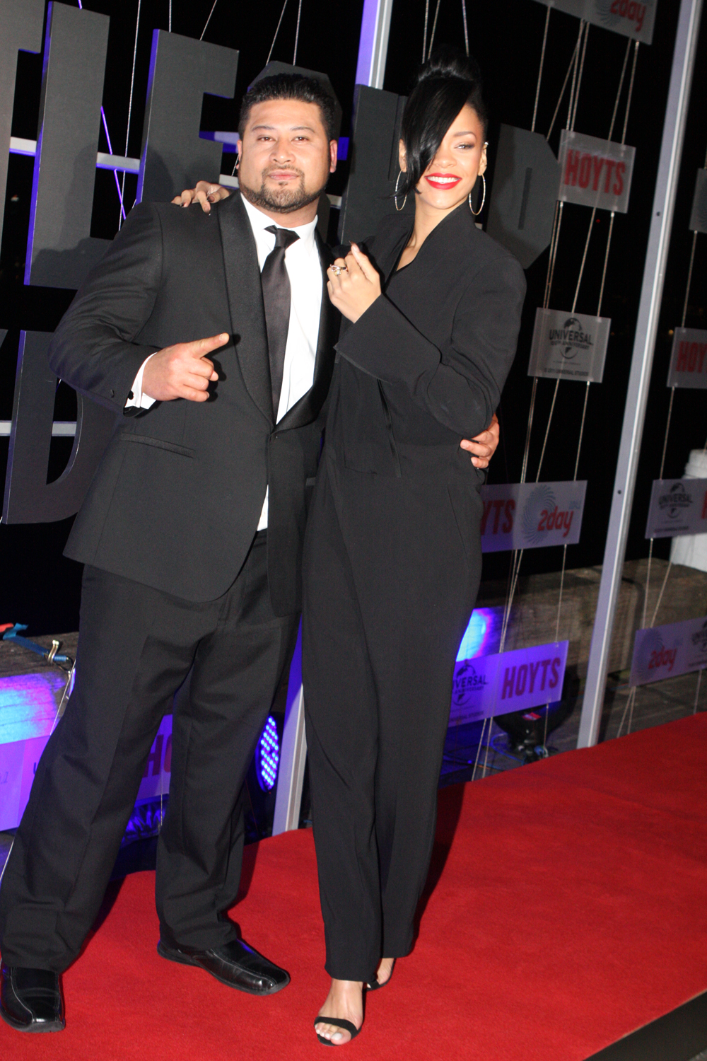 John Tui & Rihanna at the Australian premiere of Battleship in Sydney, Luna Park